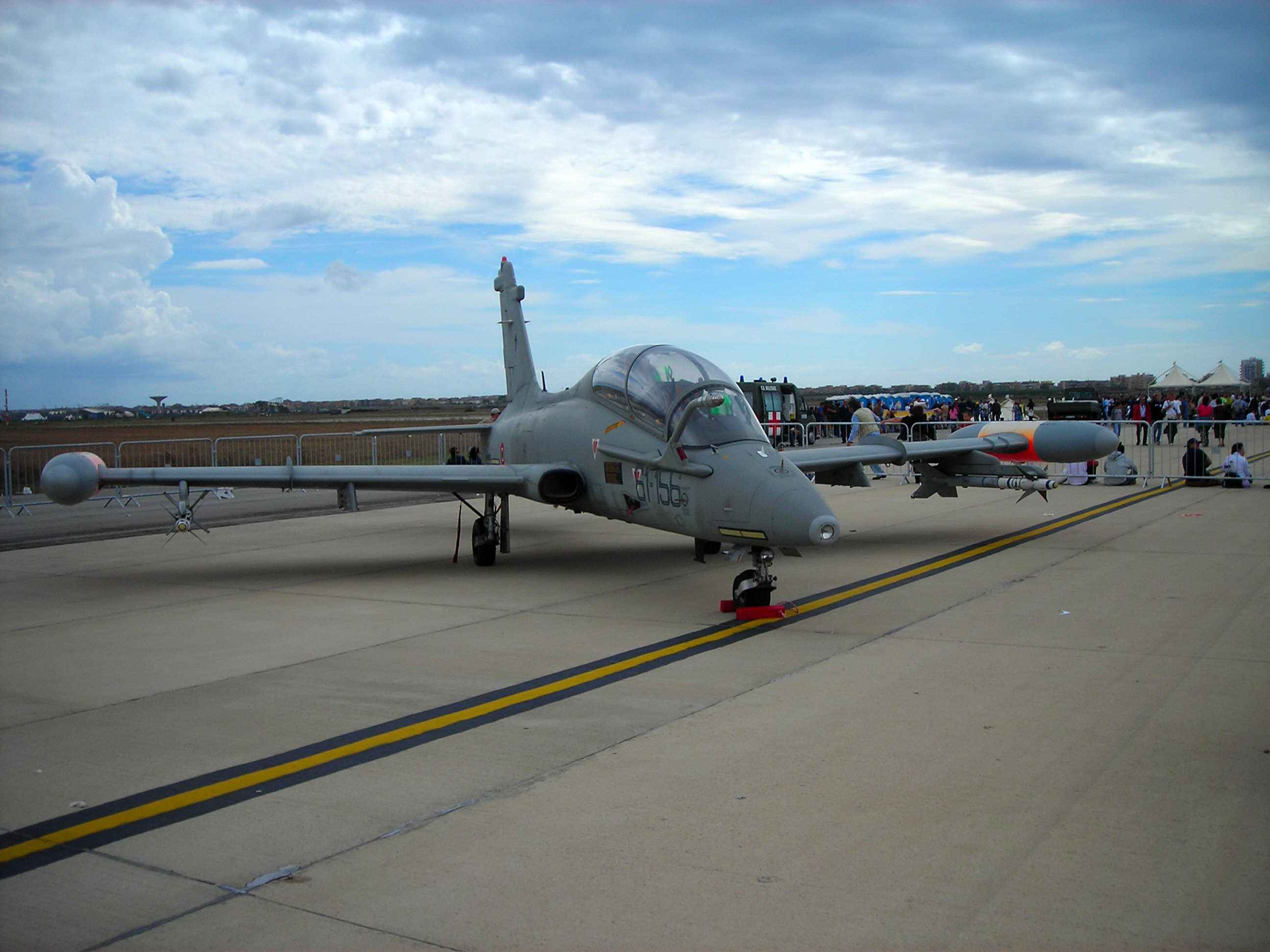 Italian advanced trainer Aermacchi MB-339CD. Picture taken during "Giornata Azzurra" 2006 (Italian Air Force airshow) at Pratica di Mare AFB, Italy.